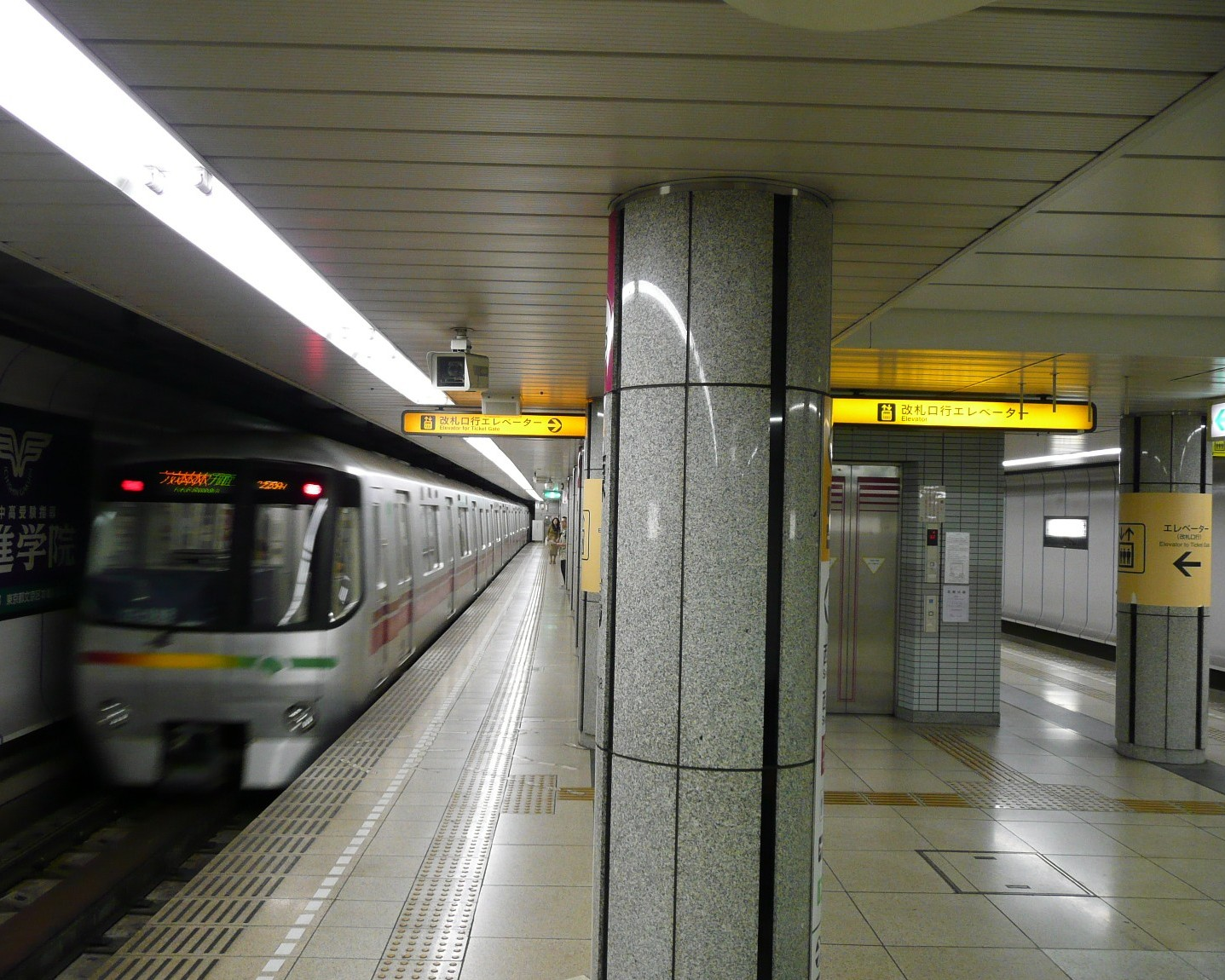 Platform of Nerima Station, Toei Odeo Line